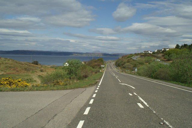 The Glasnacardoch turning off the A830